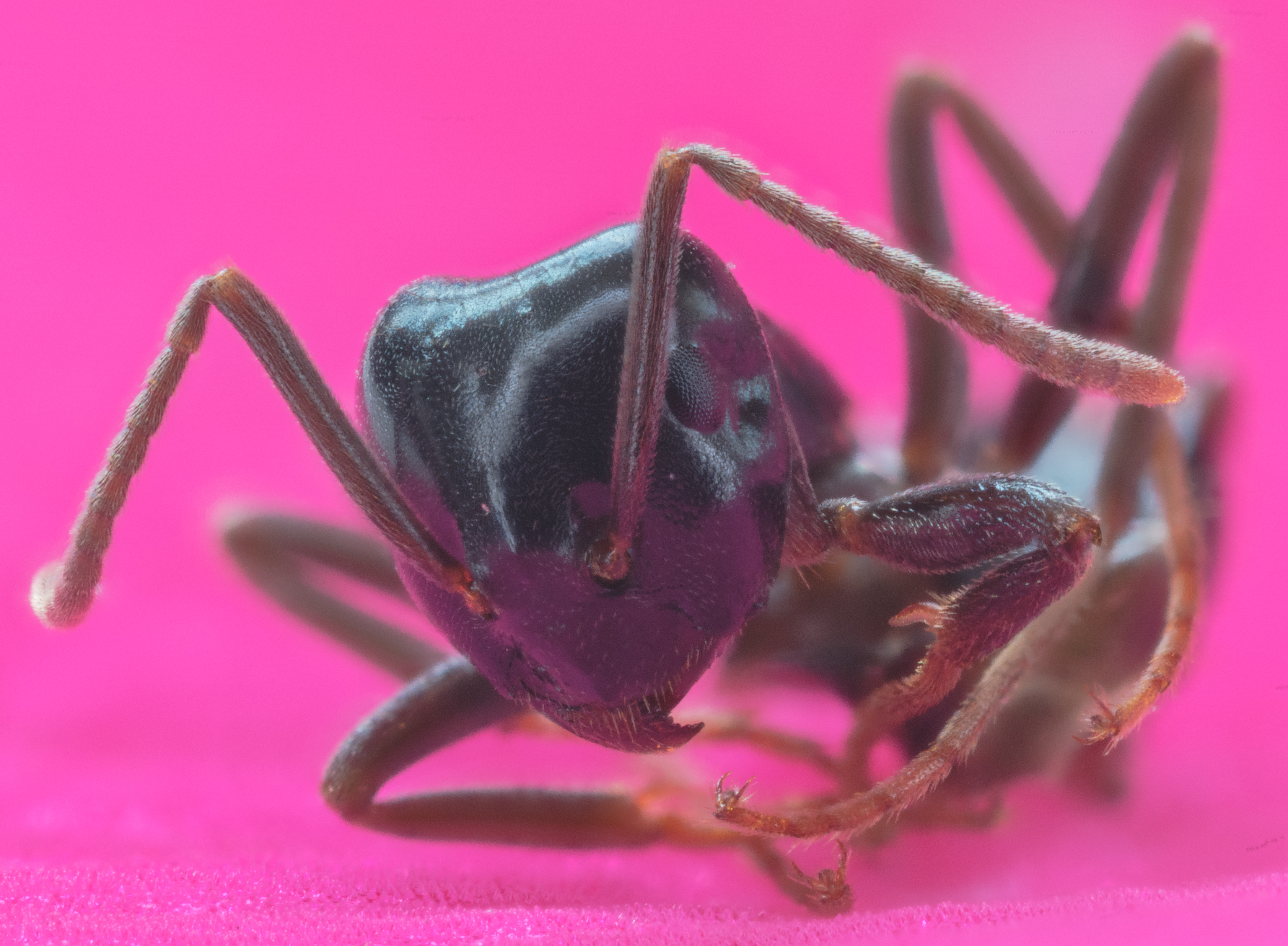 Pharaoh ant (Monomorium pharaonis), Hartelholz, Munich, Germany